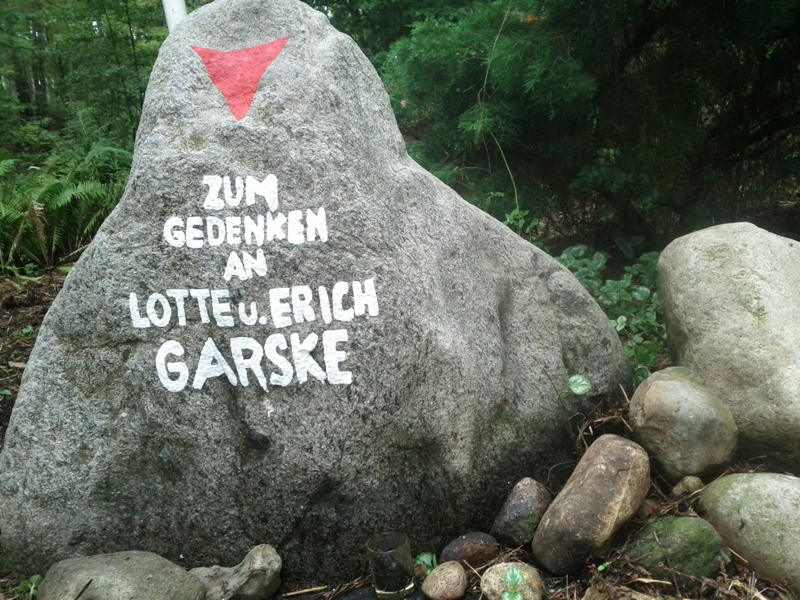 Listed memorial for the victims of National Socialism Erich and Charlotte Garske, which were murdered in December 1943 in Berlin-Plötzensee. The stone (glacial erratic) is situated nearby the Springsee in Limsdorf-Möllendorf. The village Limsdorf is a part of the town Storkow, District Oder-Spree, Brandenburg, Germany. Installed by friends already in 1944 – still during the NS-Regime – the monument is unique in Brandenburg.